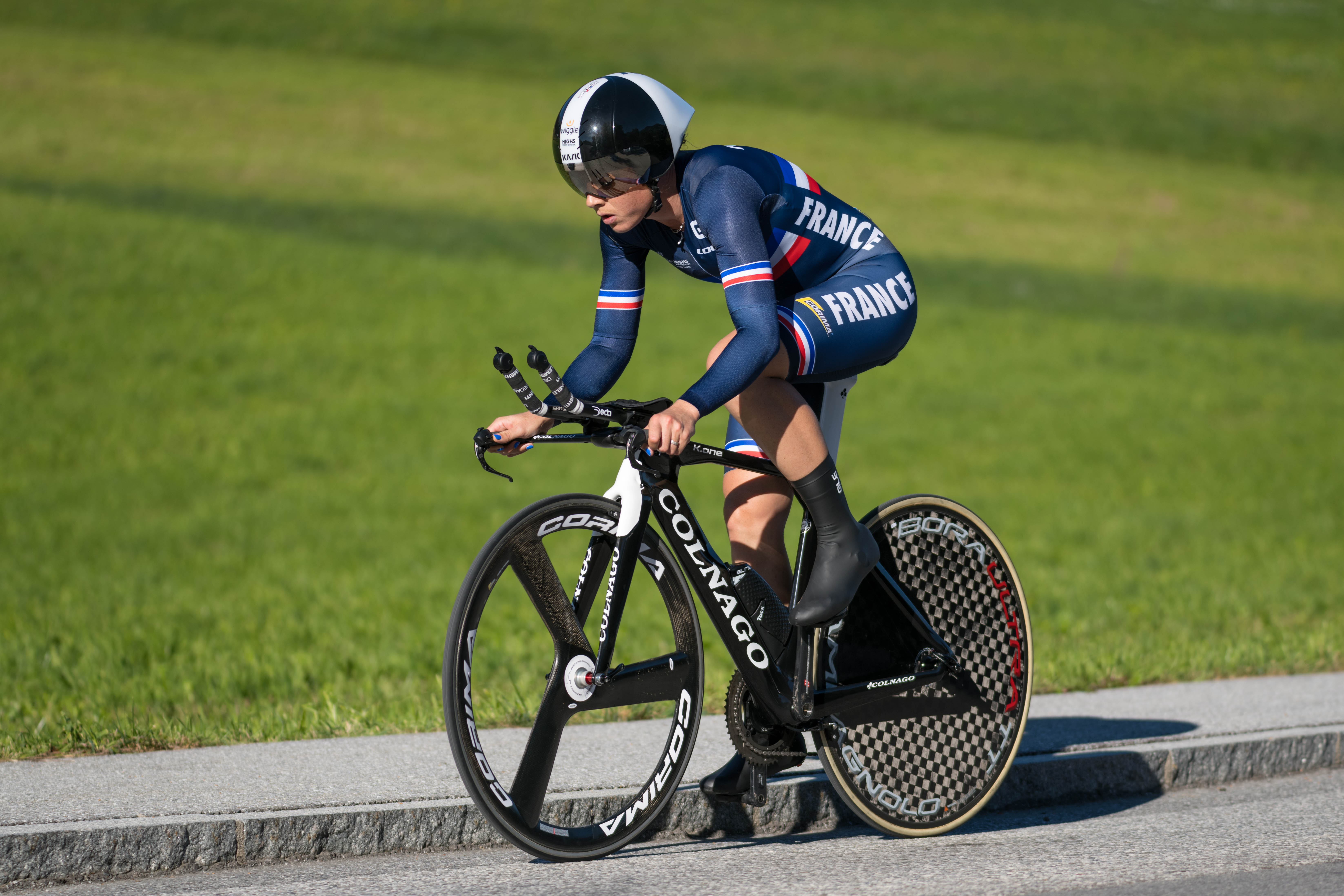 2018 UCI Road World Championships Innsbruck/Tirol Women Elite Individual Time Trial. Picture shows: Audrey Cordon Ragot of France